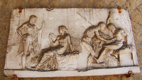 This is a relief of Telephus, son of Hercules, who was the mythical founder of Herculaneum.